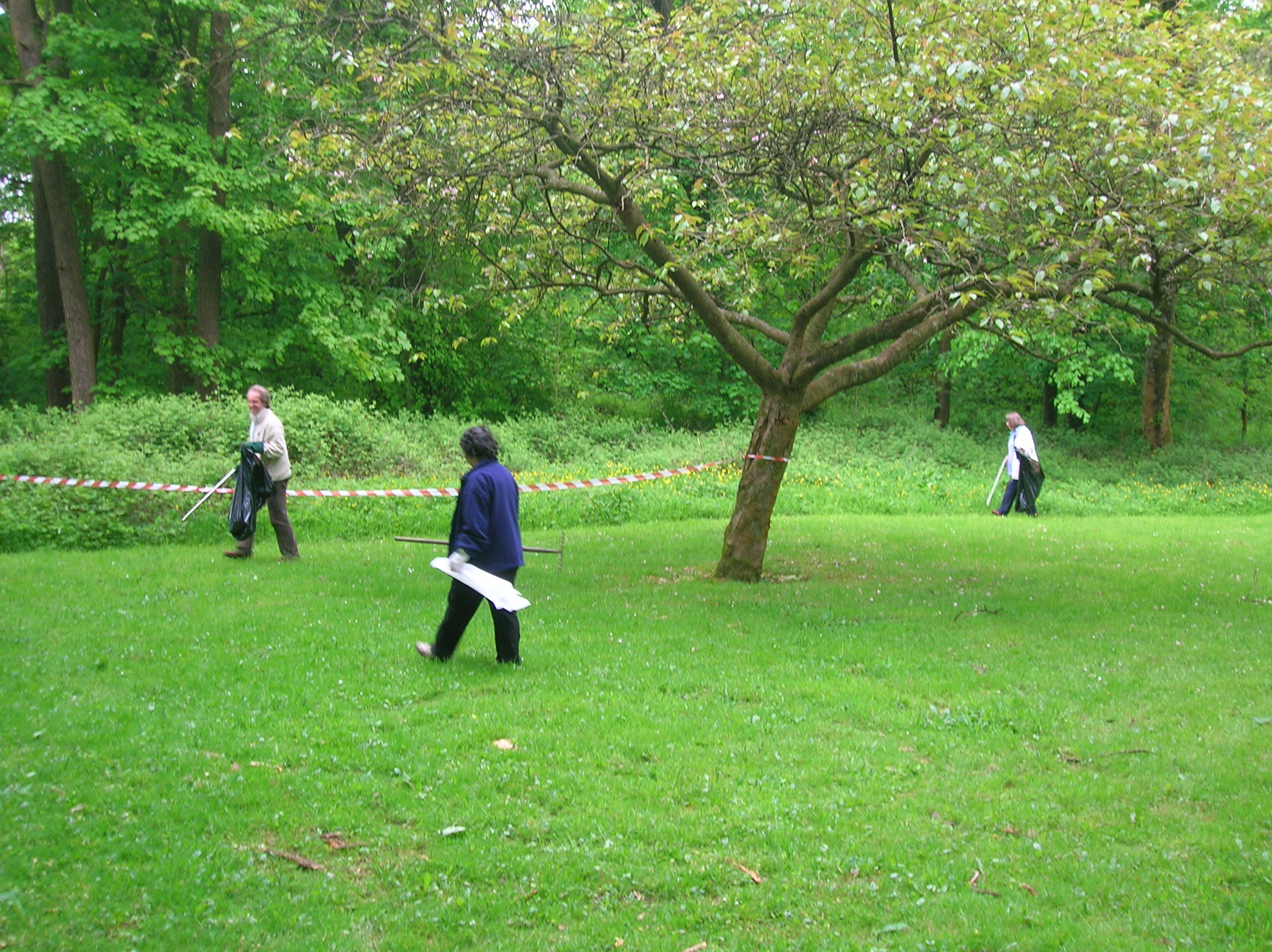 Clean up at Speir's school grounds, Beith, Scotland